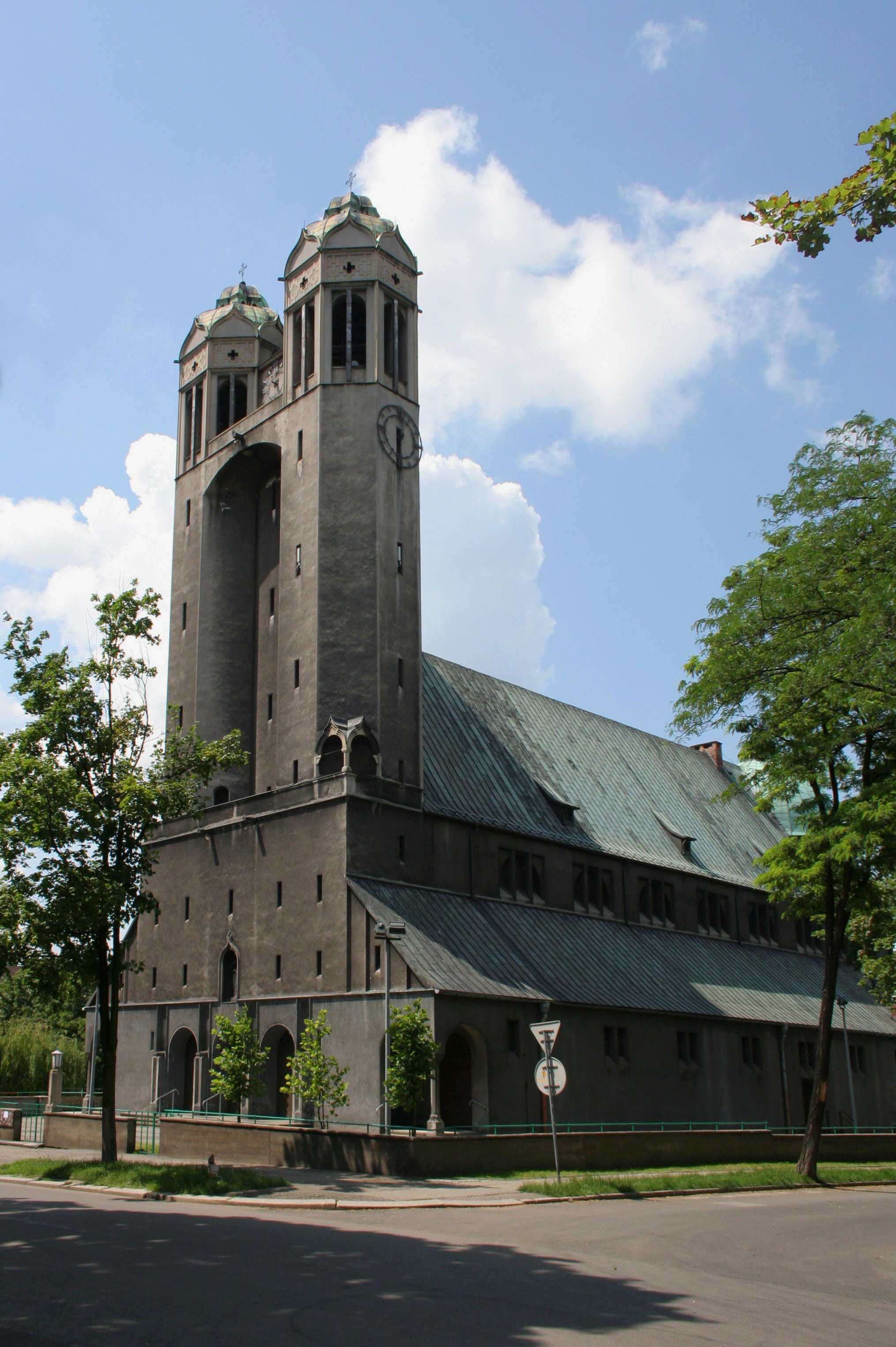 Church of St. Barbara in Bytom.